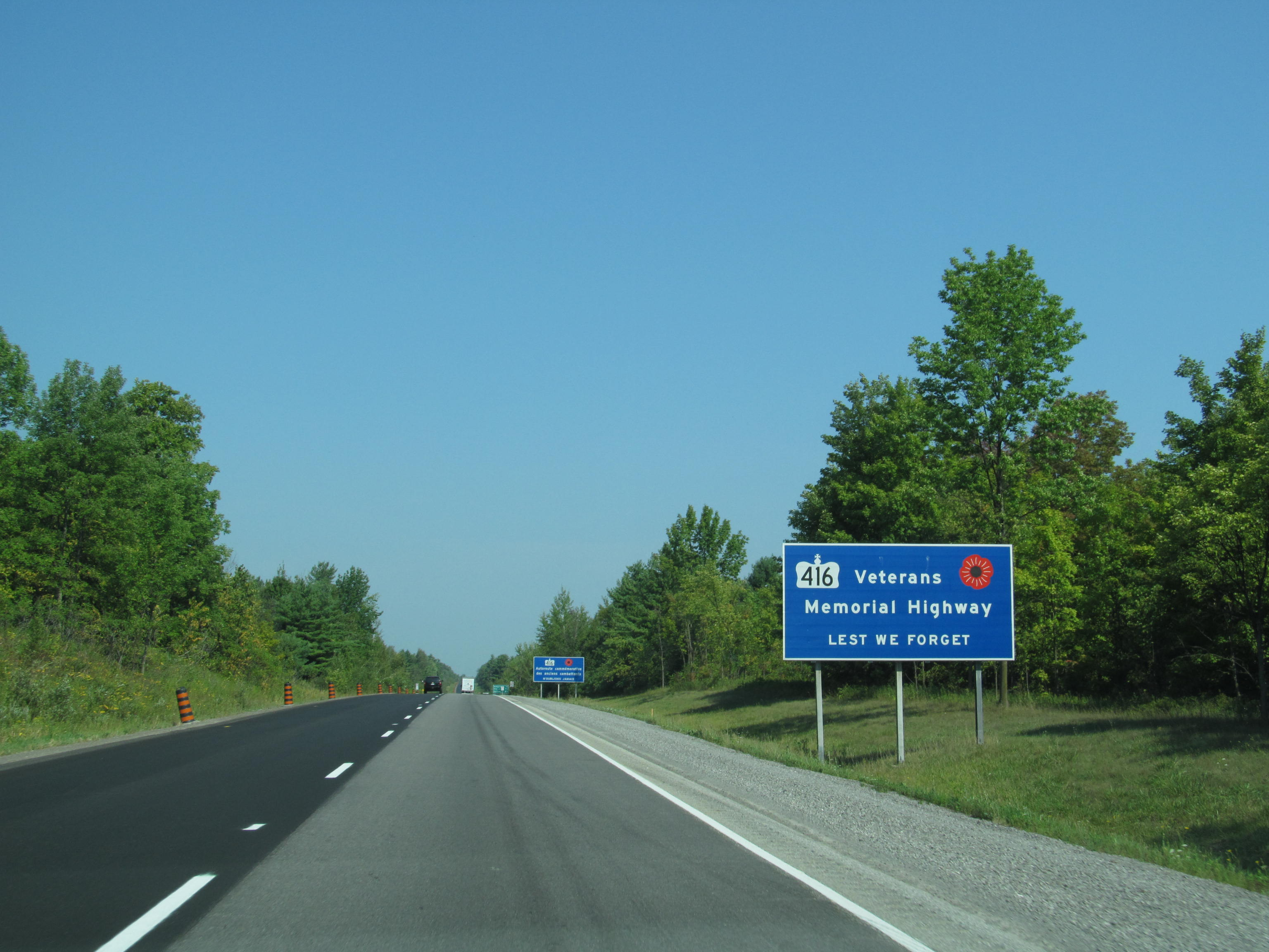 Sign along Highway 416 indicating it's alternative name as the Veterans Memorial Highway in English with a sign in French in the distance.